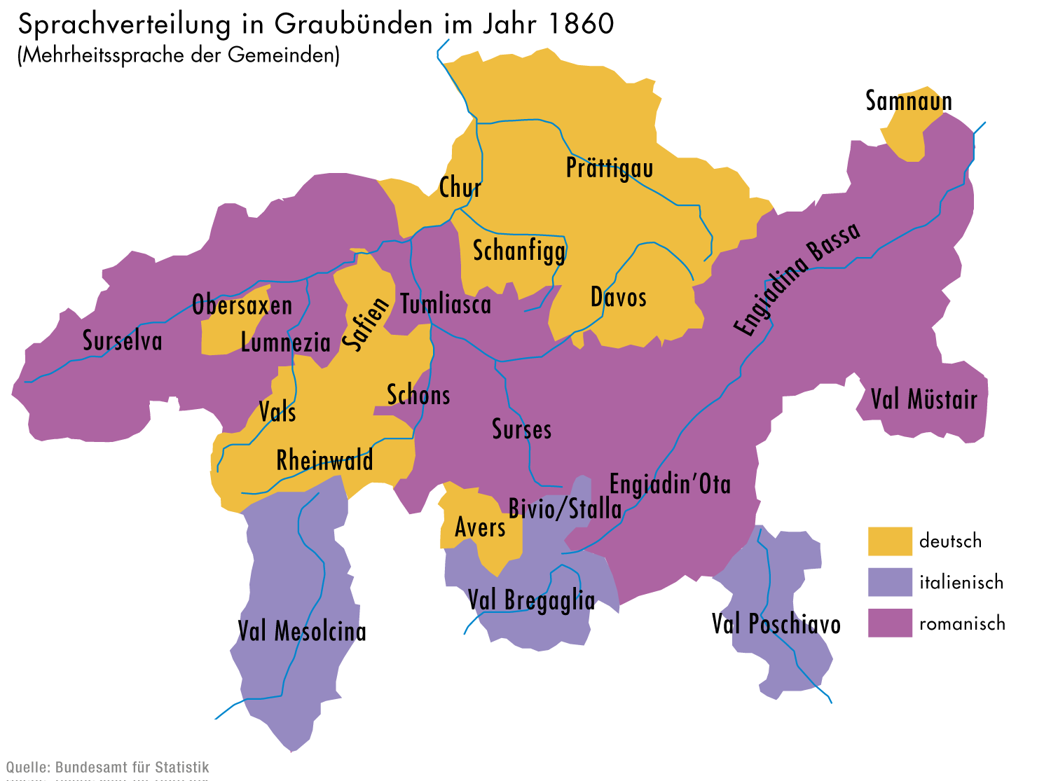 Language majority of municipalities in the canton of Graubünden 1860 Rumantsch Deutsch Italiano